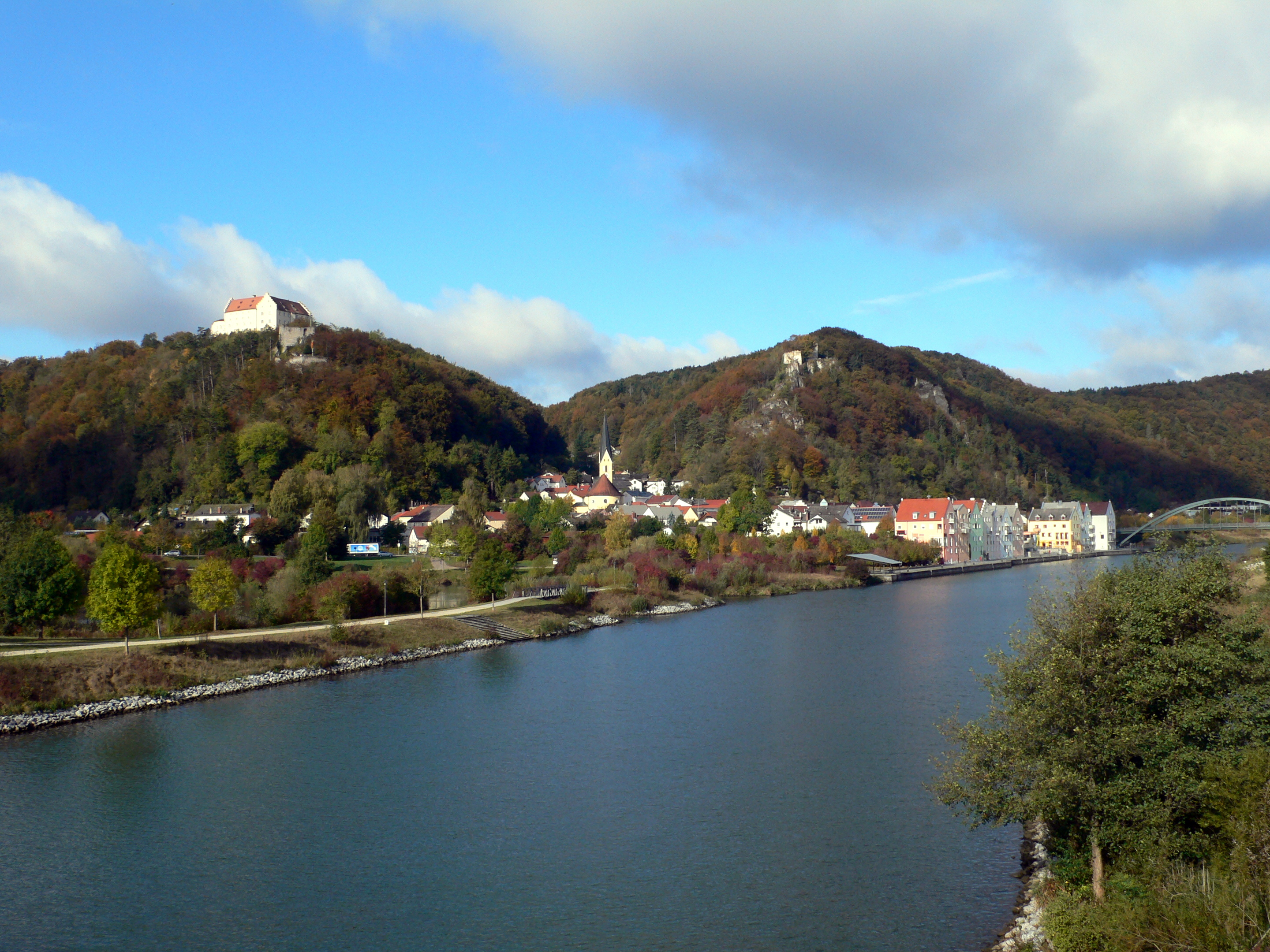 City of Riedenburg (Bavaria)